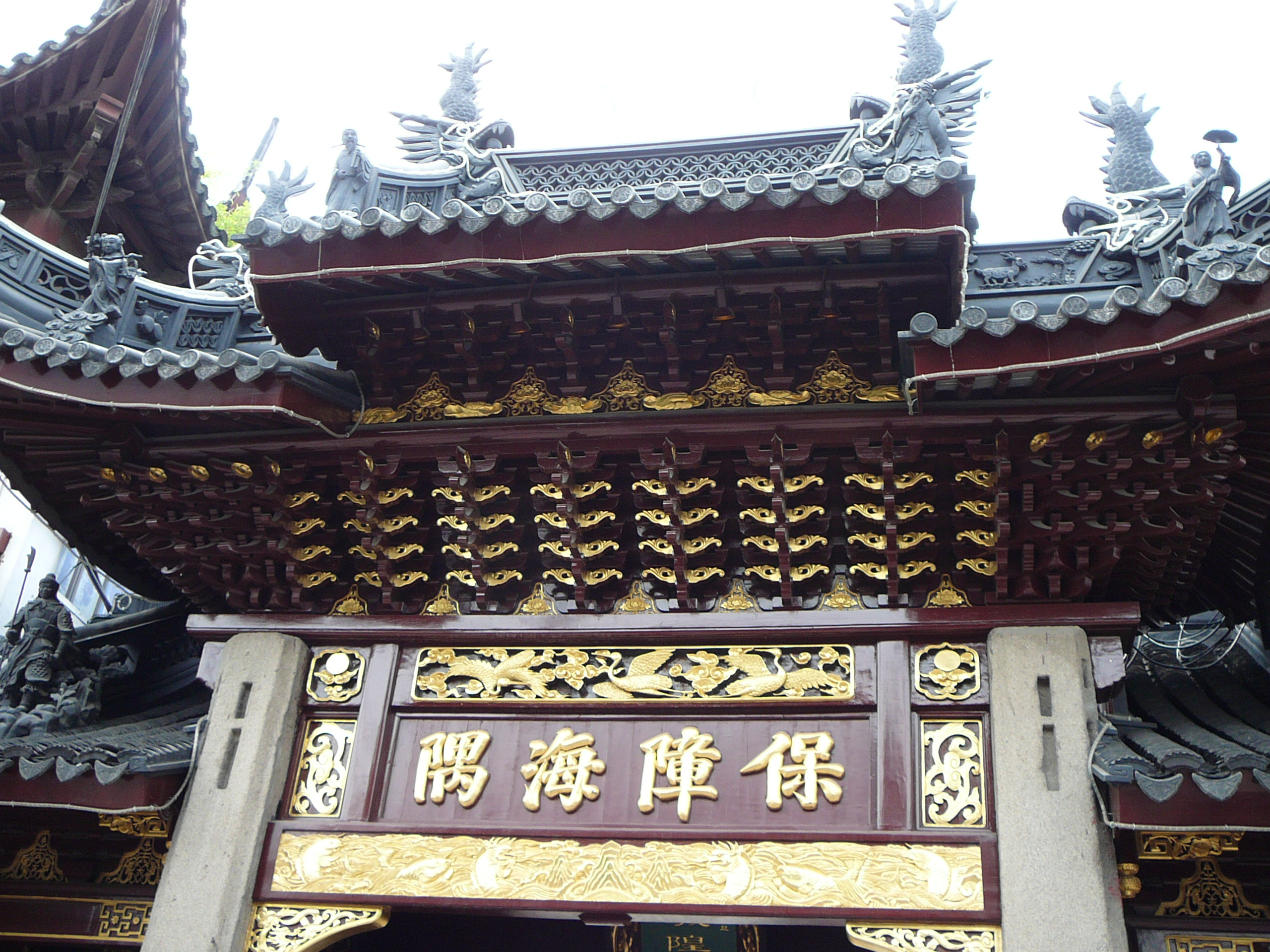 A Paifang in the City God Temple of Shanghai